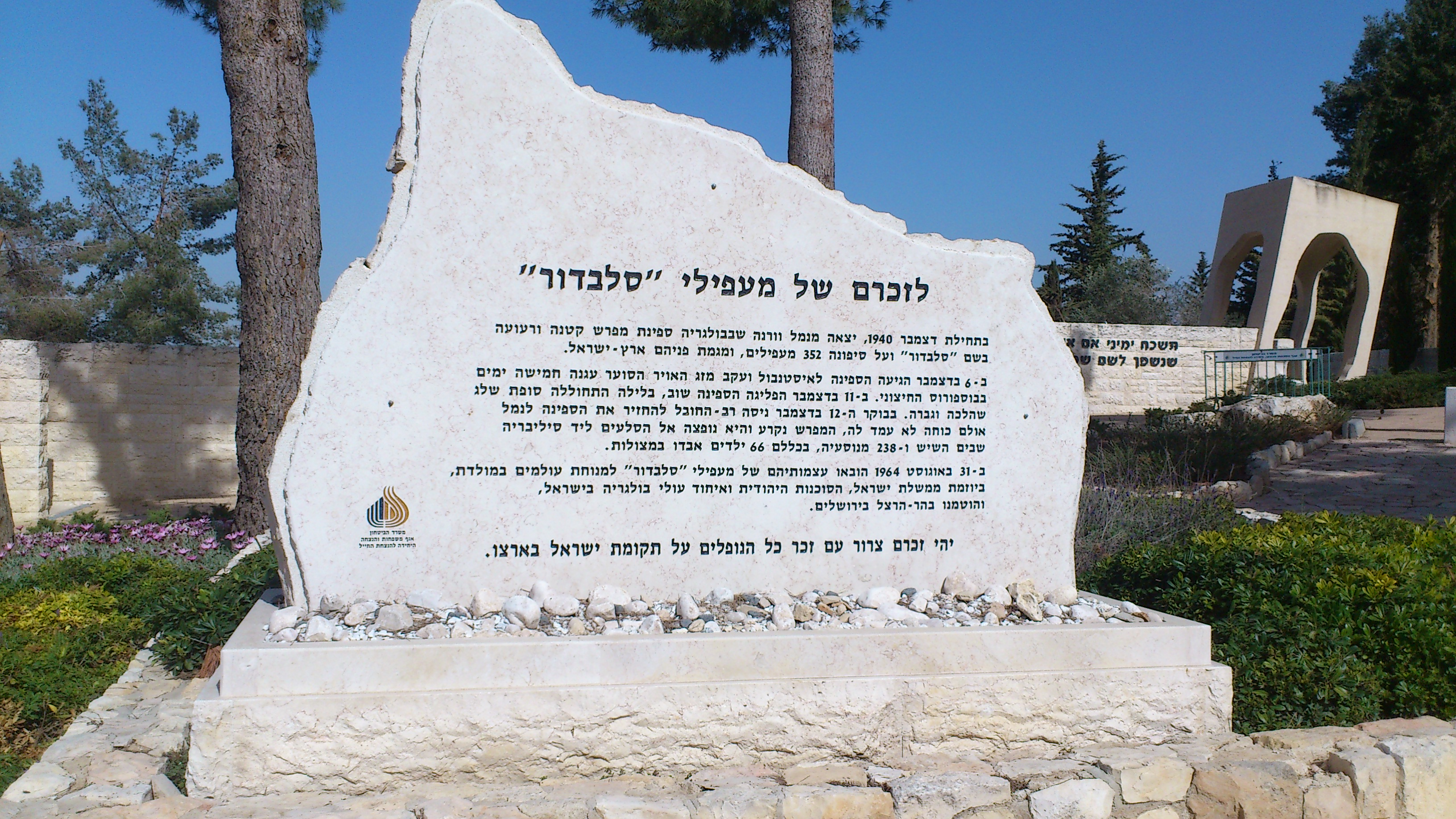 Common Grave for the illegal immigrants aboard MV Salvador